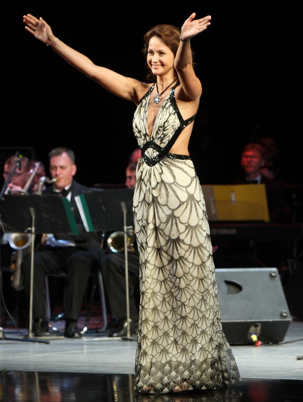 Soviet/Russian actress Olga Igorevna Kabo